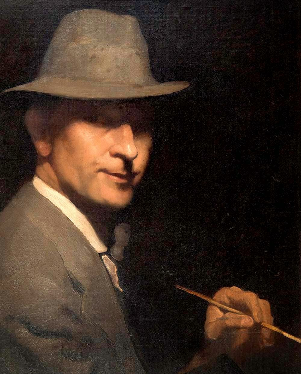 Self-portrait (date unknown)